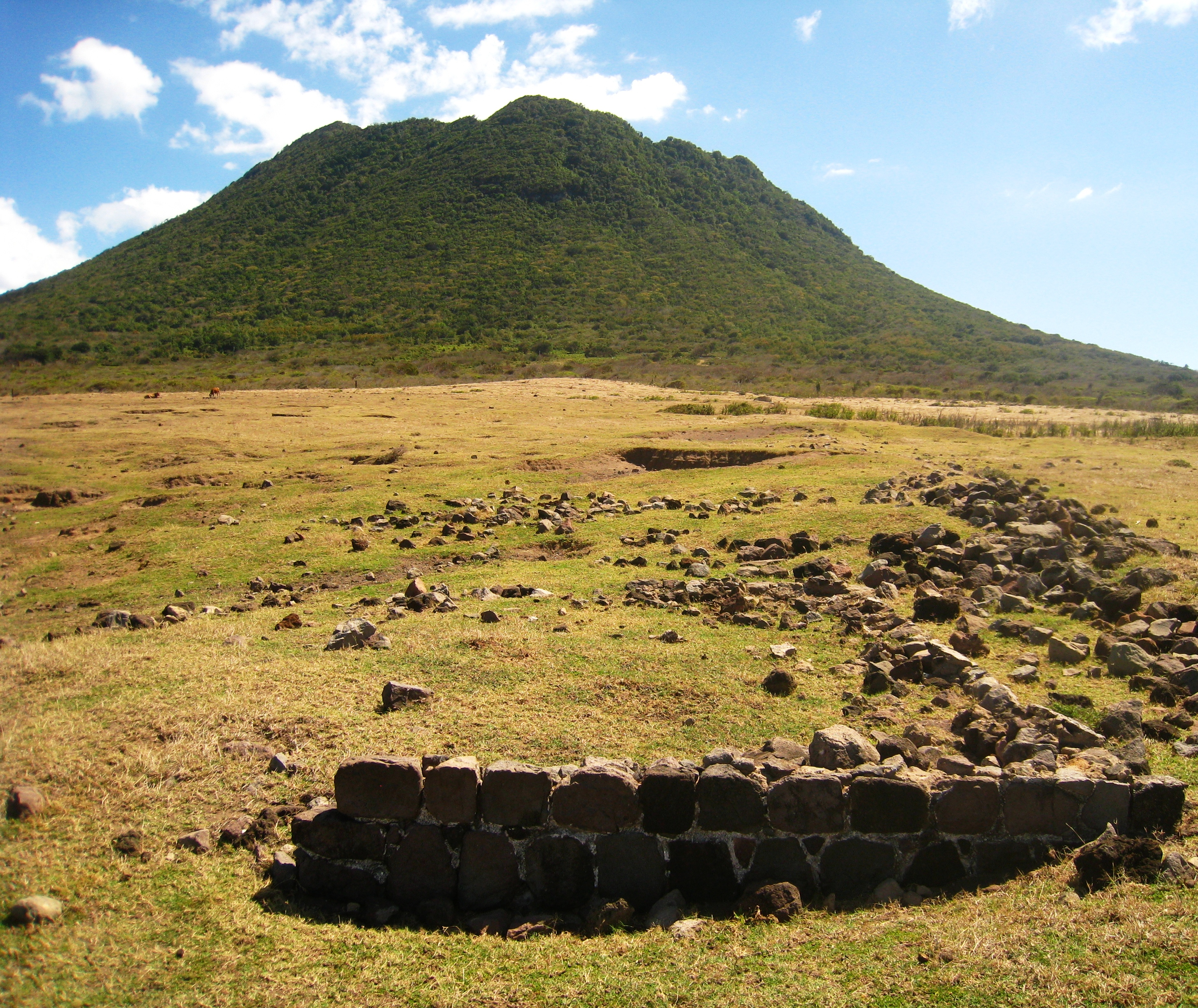 The Quill dormant volcano on St. Eustatius seen from the remains of Battery St. Louis